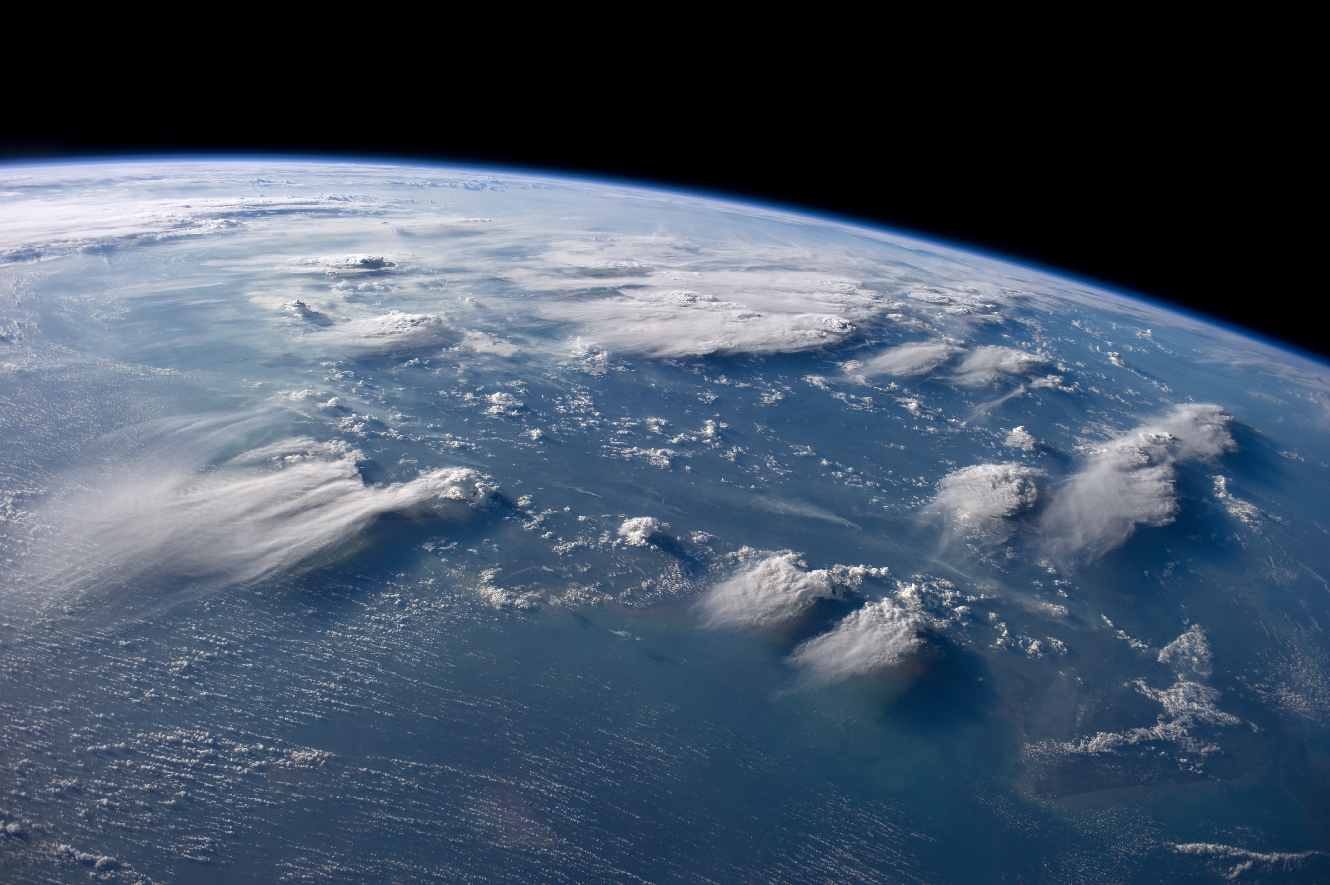 Thunderheads near Borneo, Indonesia are featured in this image photographed by an Expedition 40 crew member on the International Space Station. Crews aboard the International Space Station (ISS) have recently focused their cameras on panoramic views of clouds. Many of the photographs have been taken with lenses similar to the focal length of the human eye. Such images help us see Earth the way ISS crews see it from their perch 350 kilometers above—with a strong three-dimensional sense and a broad view of the planet. In this image, late afternoon sunlight casts long shadows from thunderhead anvils down onto southern Borneo. Near the horizon (image top center), more than 1000 kilometers away from the space station, storm formation is assisted by air currents rising over the central mountains of Borneo. Winds usually blow in different directions at different altitudes. At the time of this photo, high-altitude winds were clearly sweeping the tops off the many tallest thunderclouds, generating long anvils of diffuse cirrus plumes that trail south. At lower levels of the atmosphere, “streets” of white dots—fair-weather cumulus clouds—are aligned with west-moving winds. Small smoke plumes from forest fires in Borneo are also aligned west. Caption by M. Justin Wilkinson, Jacobs and Michael Trenchard, Barrios Technology at NASA-JSC